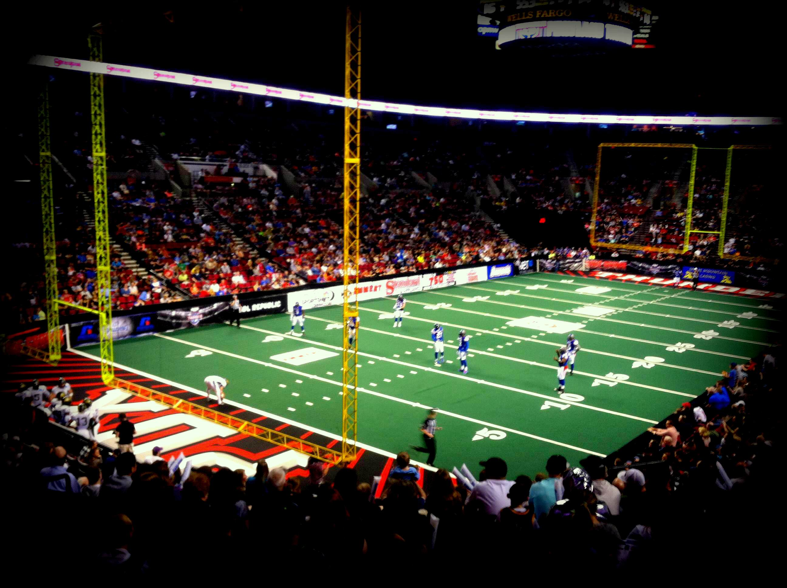 The Portland Thunder hosting the San Jose SaberCats on April 18, 2014 at the Moda Center. The SaberCats won, 38-32.